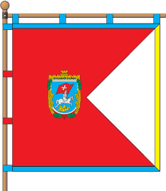 Flag of Lutskyj rajon